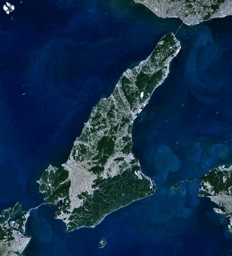 the view of Awaji-shima(island), from Landsat, generated on NASA World Wind.